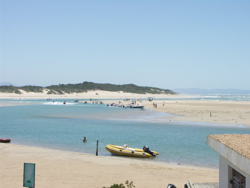 South Africa, St Francis Nick Roux 2006.